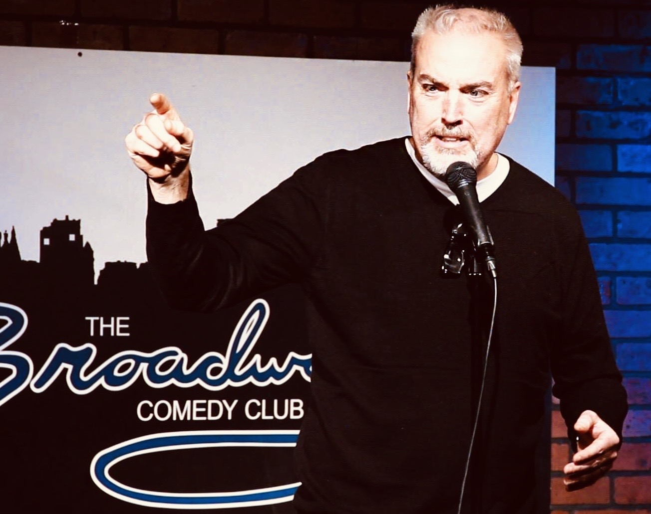 Stand-up comic Joe Antonacci has performed in 8 states across the country.